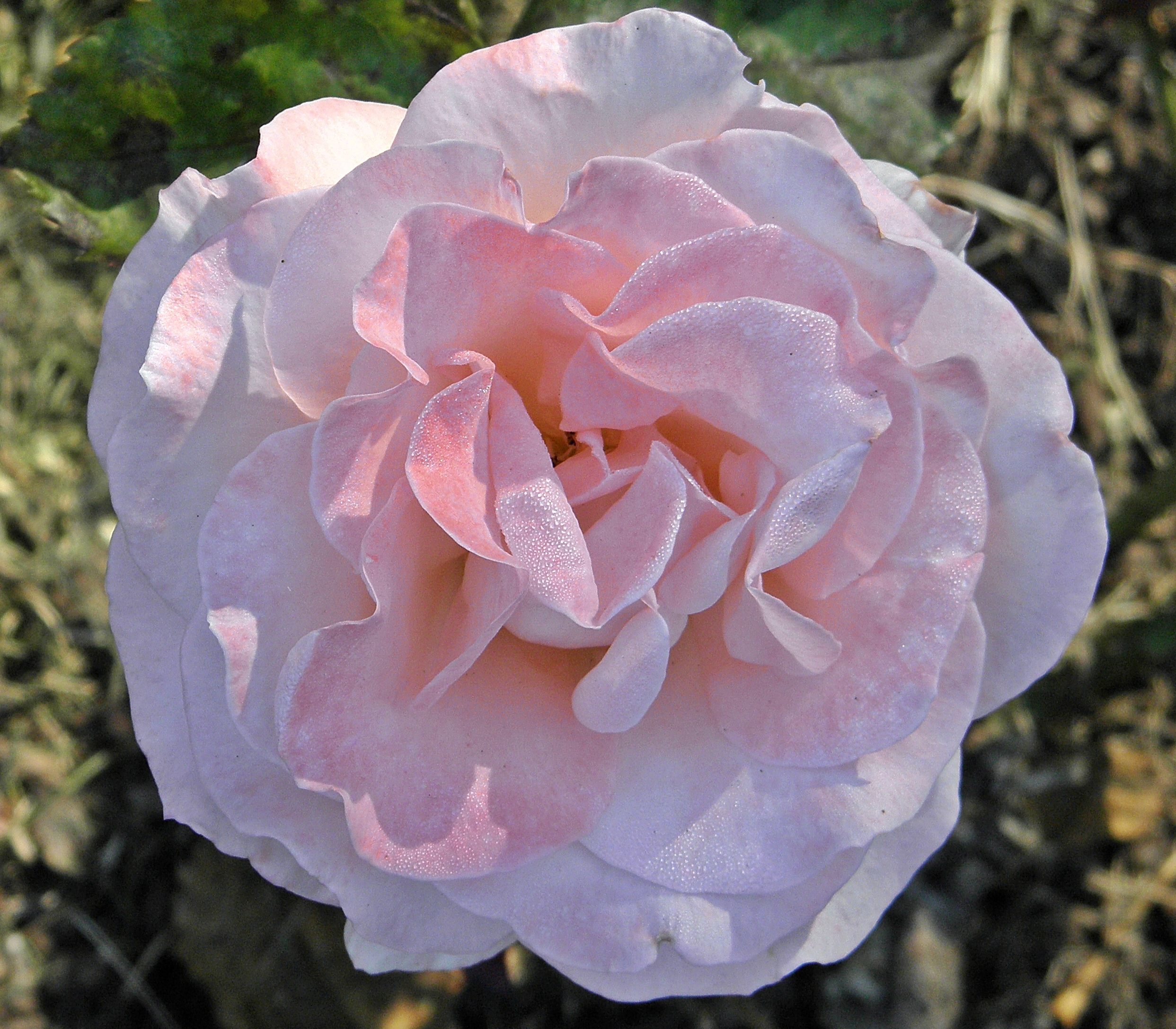 Floribunda Rose 'Cherish'; Bush's Pasture Park Rose Garden, Salem, Oregon. 97301